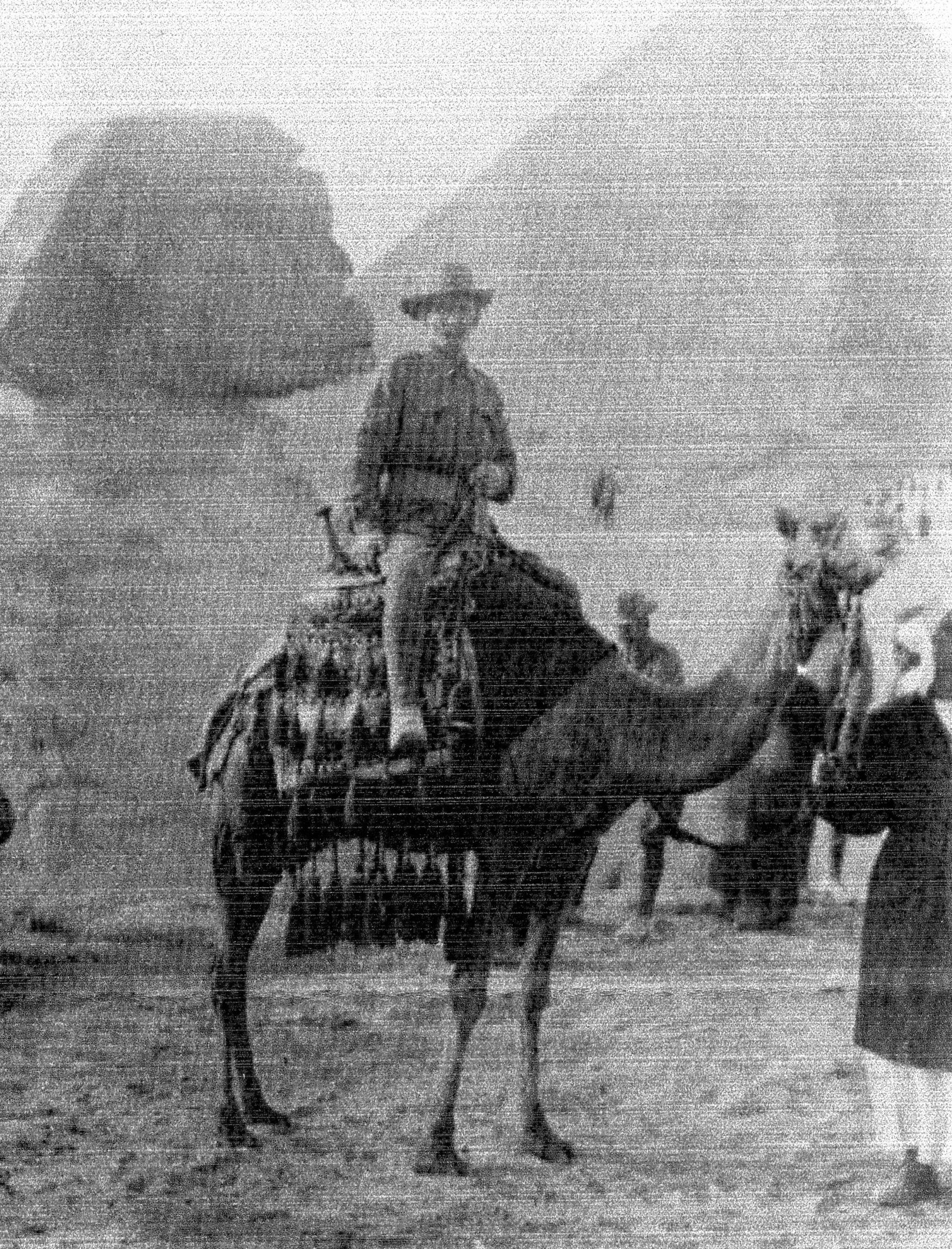 William(Bill) Henry Strahan was member of the Toodyay Road Board who served with the 16th Battalion of AIF and was killed in action on 25th April 1915